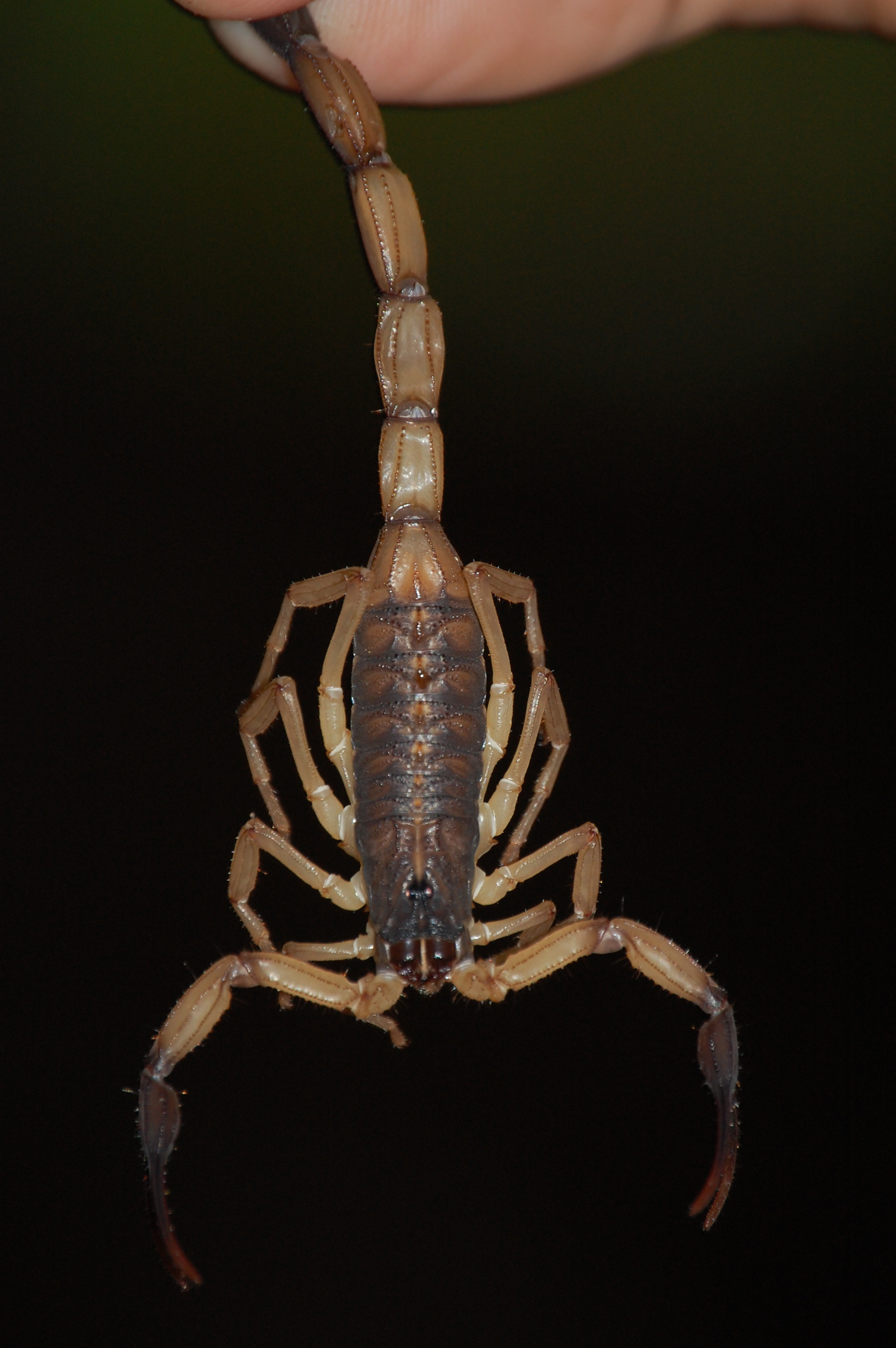 Centruroides limbatus in the Osa peninsula, Costa Rica (being held by a guide from Lapa Rios Ecolodge, who removed it from the top of a water tank).